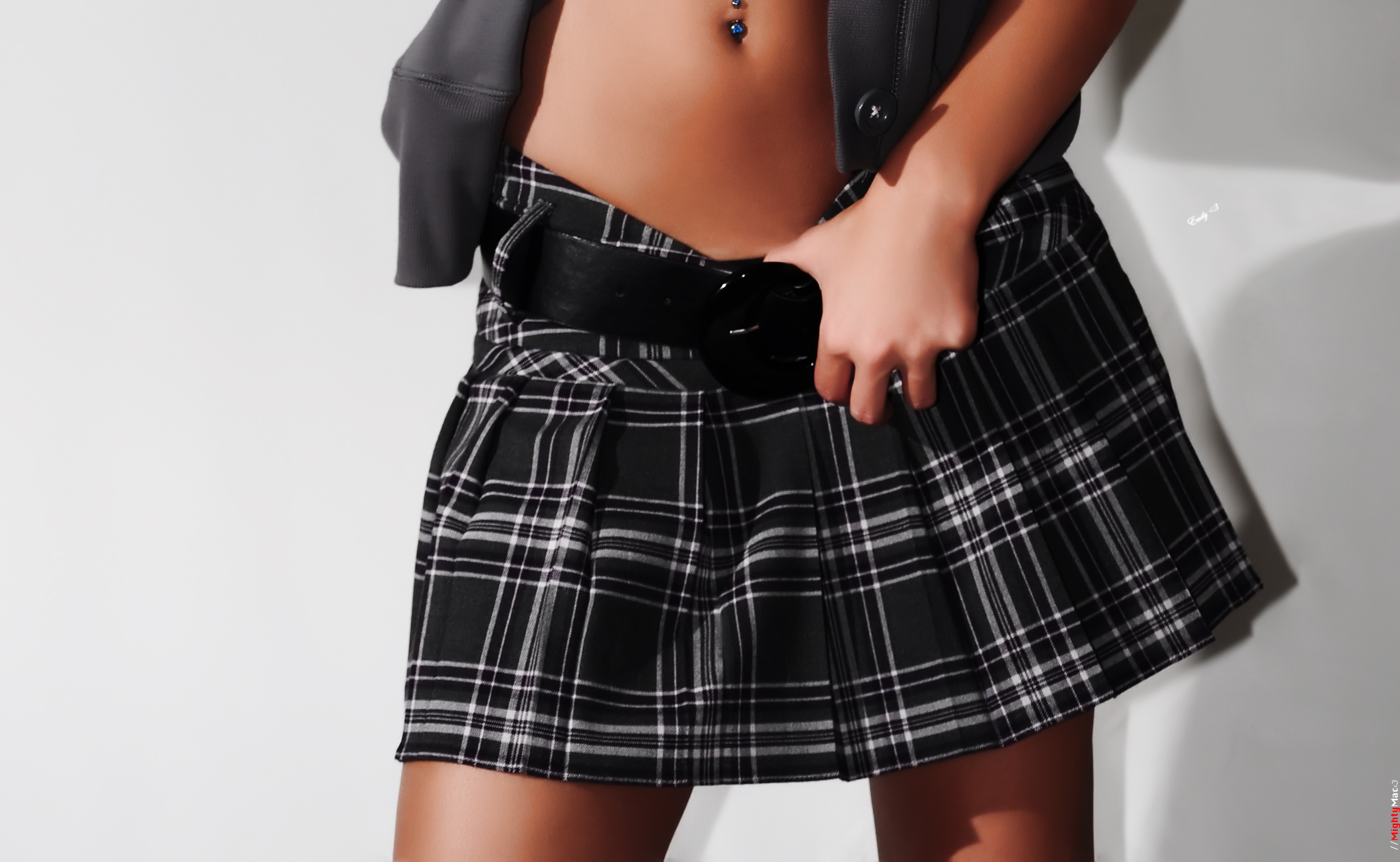 Chequered Miniskirt.